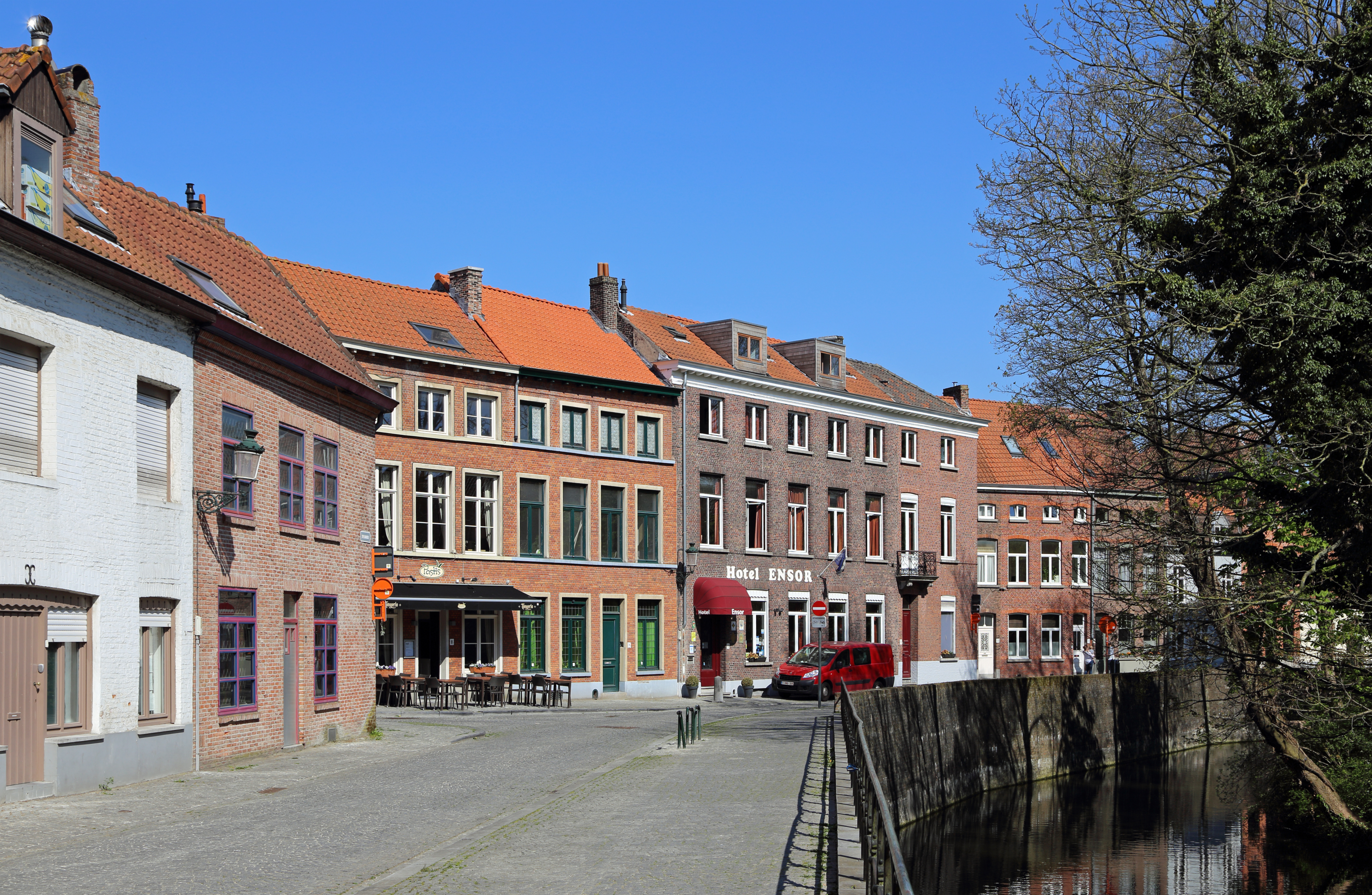 Bruges (Belgium): Speelmansrei